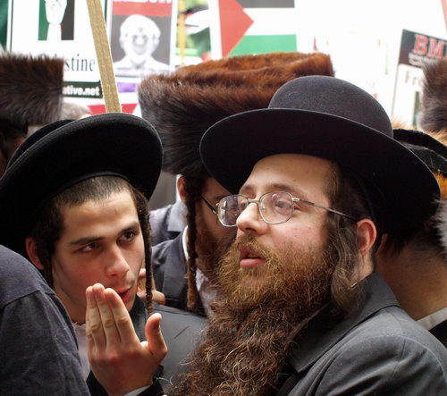 Rabbis for Palestine - orthodox anti-Zionist group